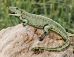 Proterogyrinus illustration